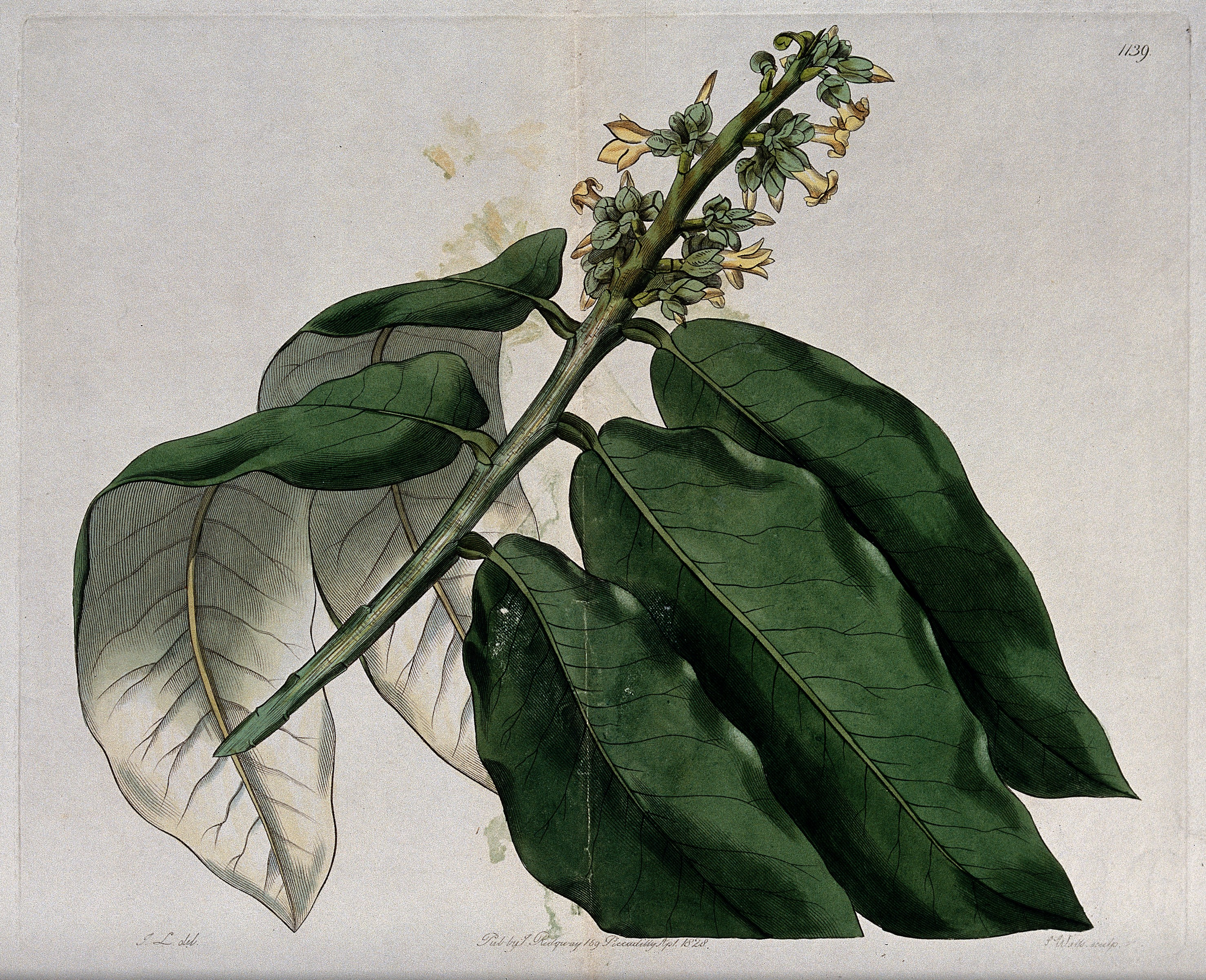 A plant (Diospyros mabola = Diospyros discolor): flowering stem. Coloured engraving by S. Watts, c. 1828, after J. Lindley. Iconographic Collections Keywords: John Lindley; Sydenham Teast Edwards; S. Watts